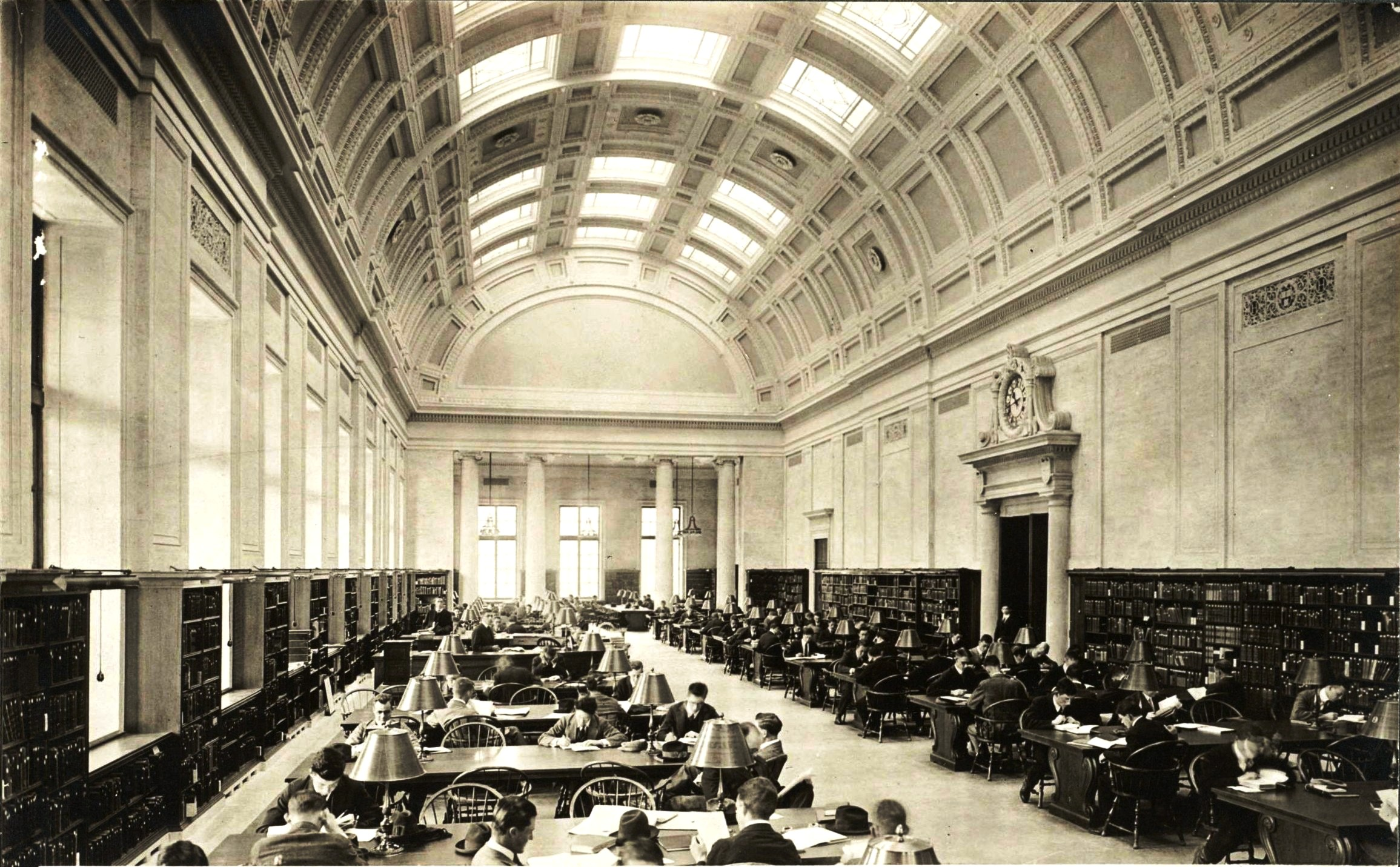 Slightly cropped version of File:HarvardUniversity WidenerLibrary Reading c1915.jpg